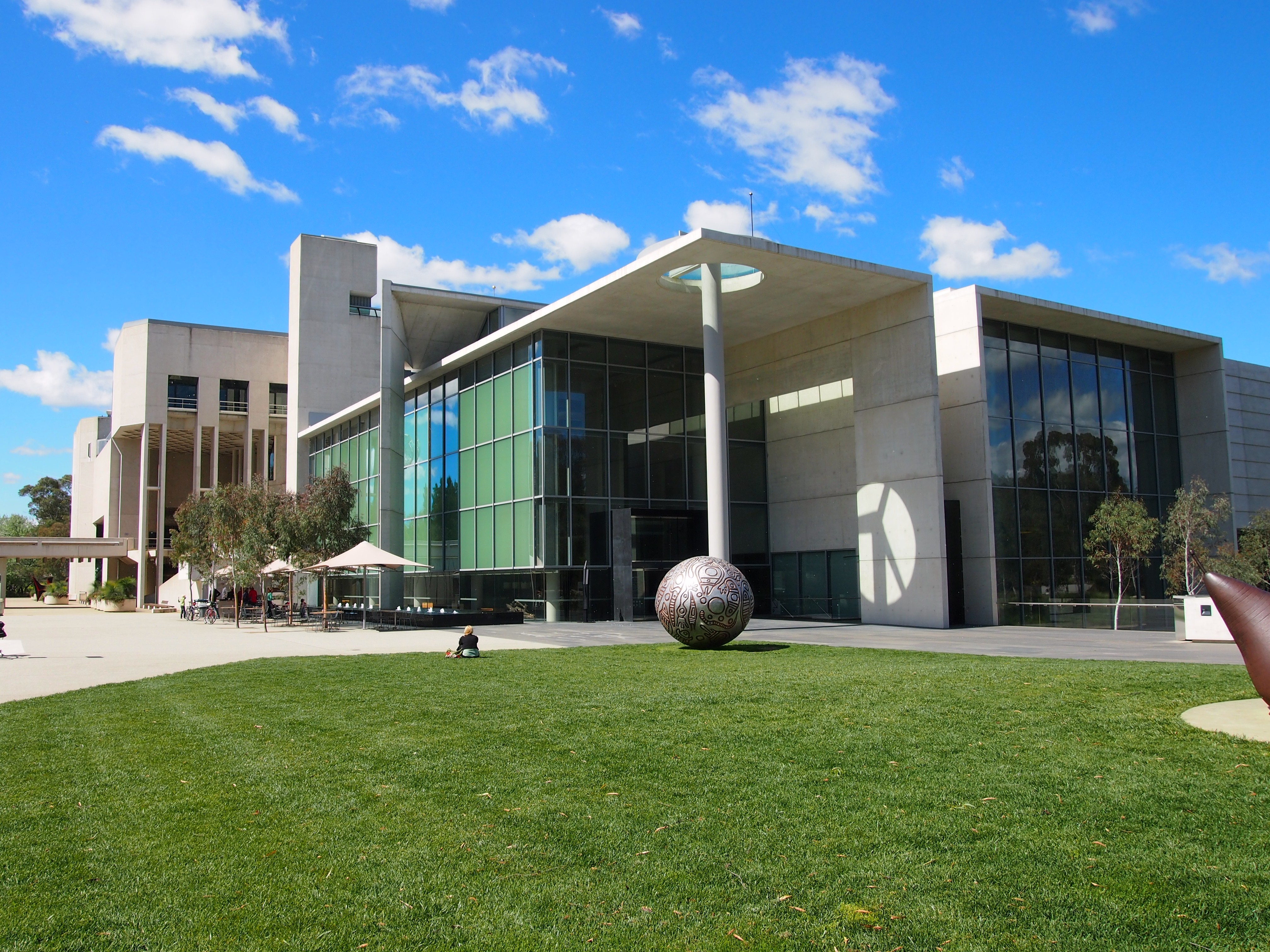 The National Gallery of Australia in October 2012